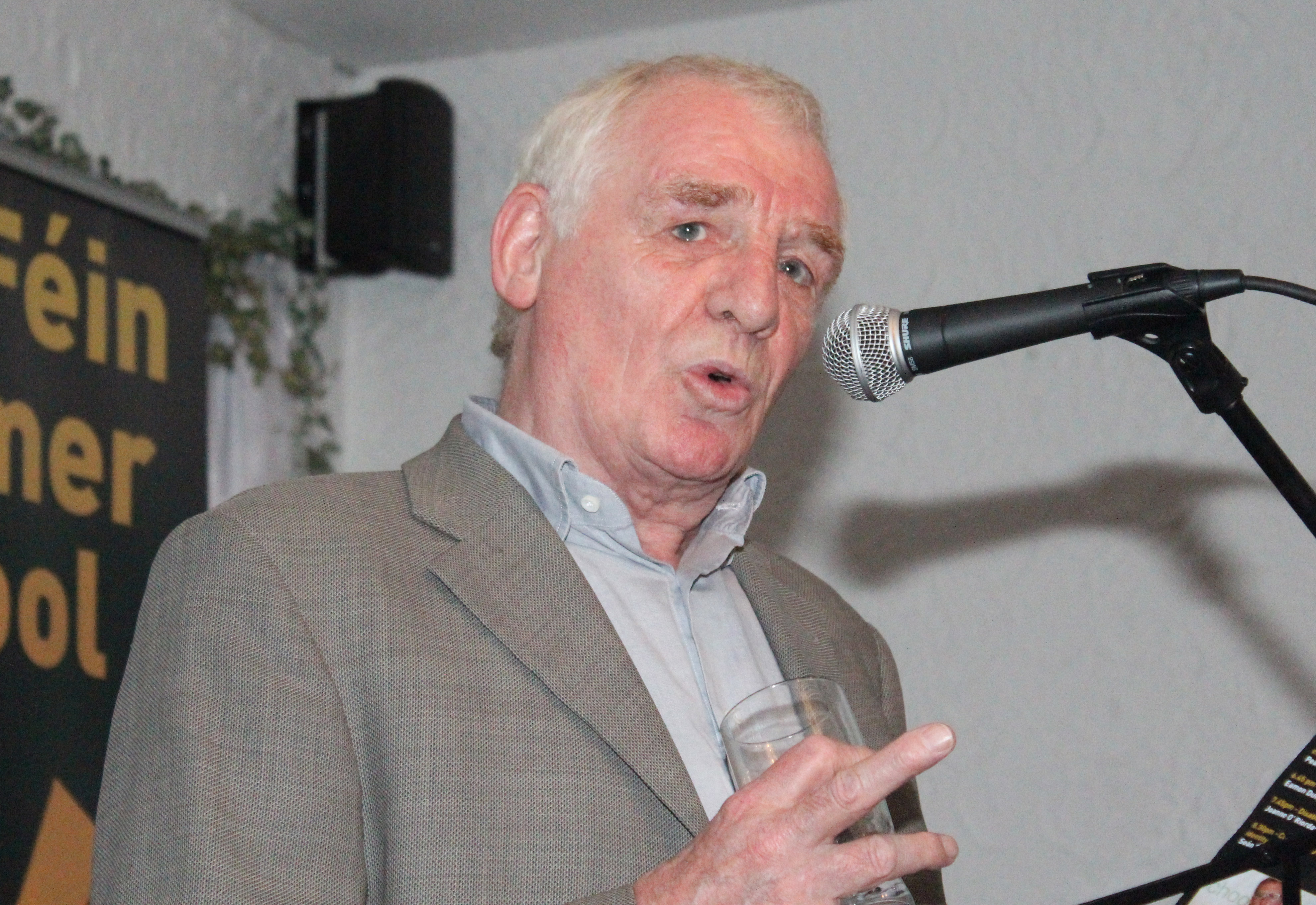 Éamon Dunphy at the Sinn Féin Summer School, 2013